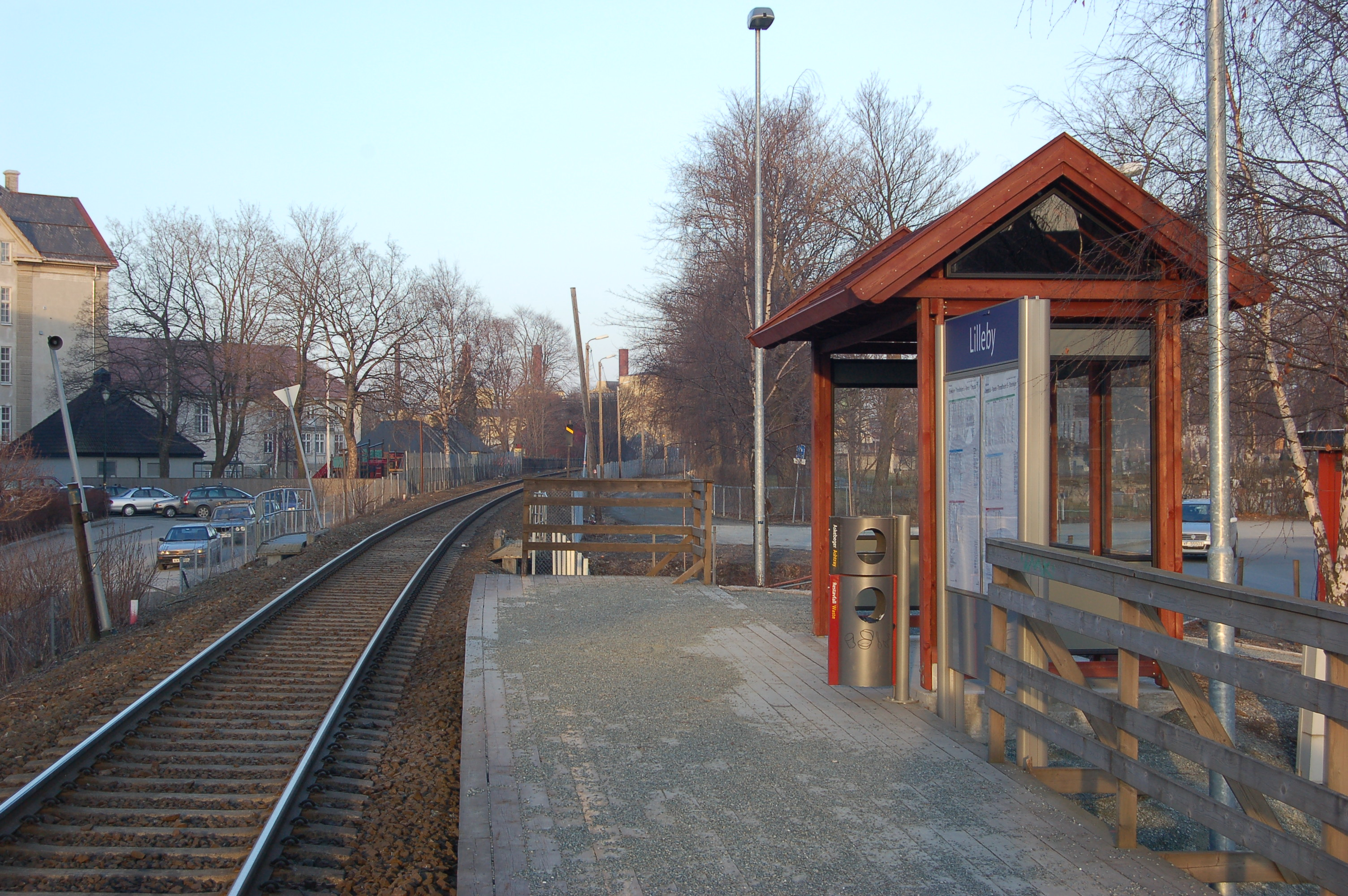 Lilleby Station on Nordlandsbanen, Trondheim, Norway